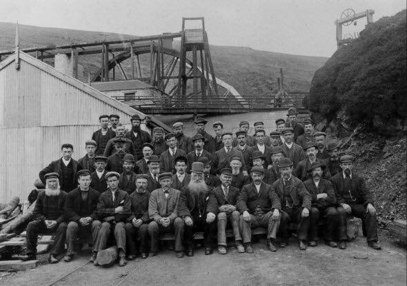 A picture of the miners employed by the Great Snaefell Mining Company